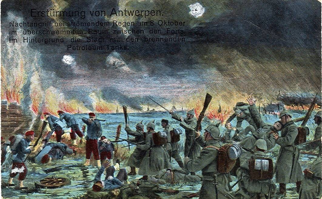 Postcard, dated 4.5.1915. Scene depicted is from 8 october 1914. (Antwerp was taken in 10 october 1914) Title: "Offensive against Antwerp".